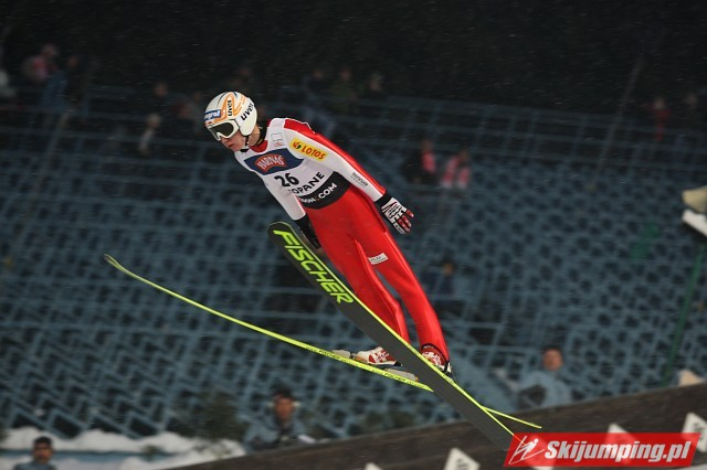 Kamil Stoch's jump during qualifications to FIS Ski Jumping World Cup in Zakopane, 2009